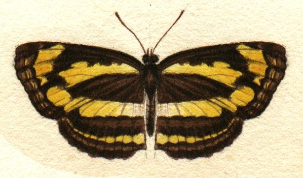 Watercolour of Unidentified Neptis (?) by Robert Templeton